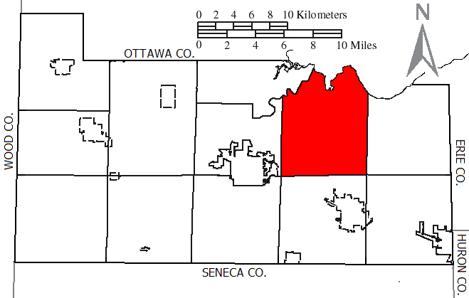 Made by the US Census and modified by User:Frank12